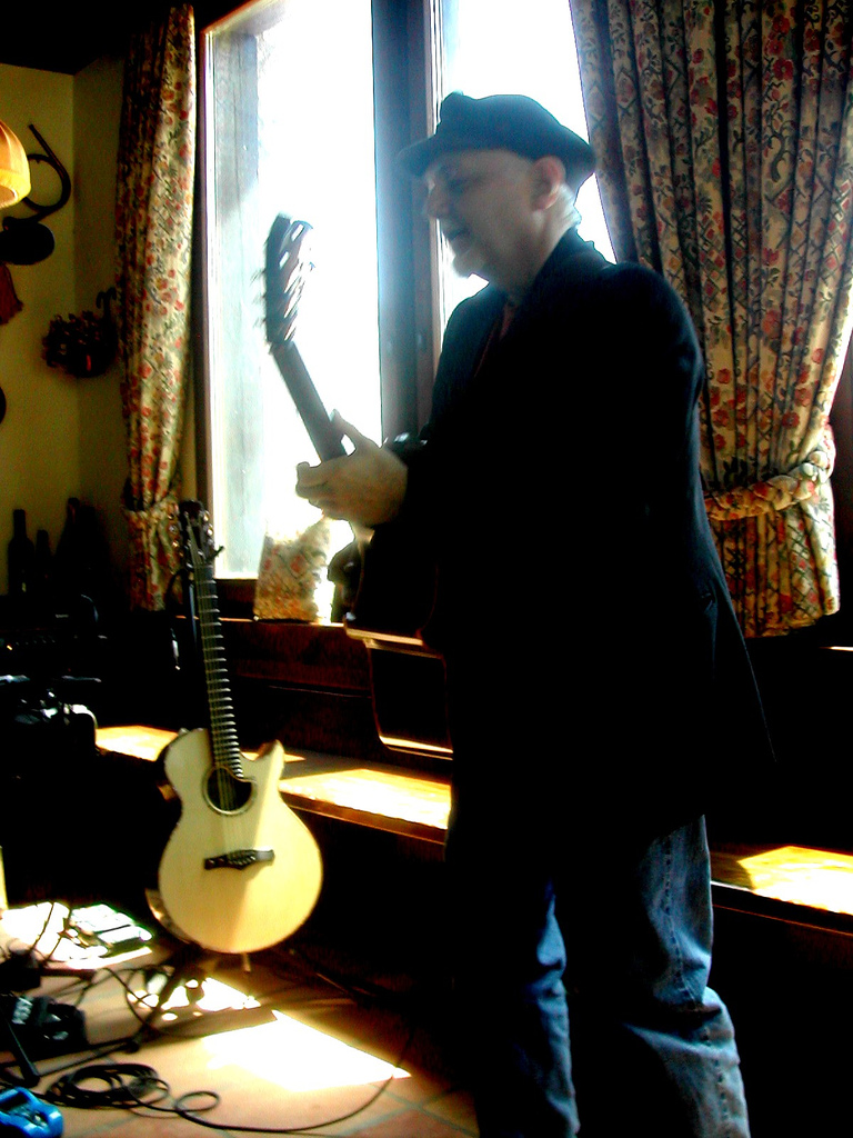 Phil Keaggy at Swiss Guitar Workshop